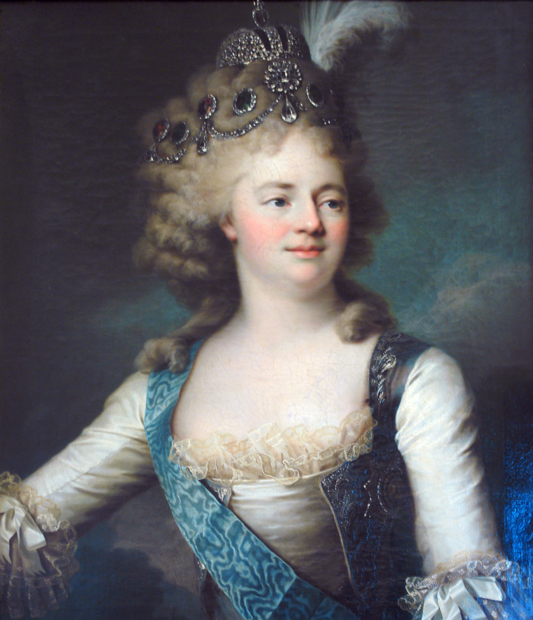 Jean Louis Voilee 1744-NOT EARLY 1803. Portrait of Grand Duchess Marie Fyodorovna (1759-1828). Late 1790s. Oil on canvas.